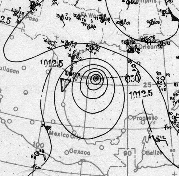 Surface analysis of the sixth hurricane of the 1916 Atlantic hurricane season approaching landfall on August 18, 1916.